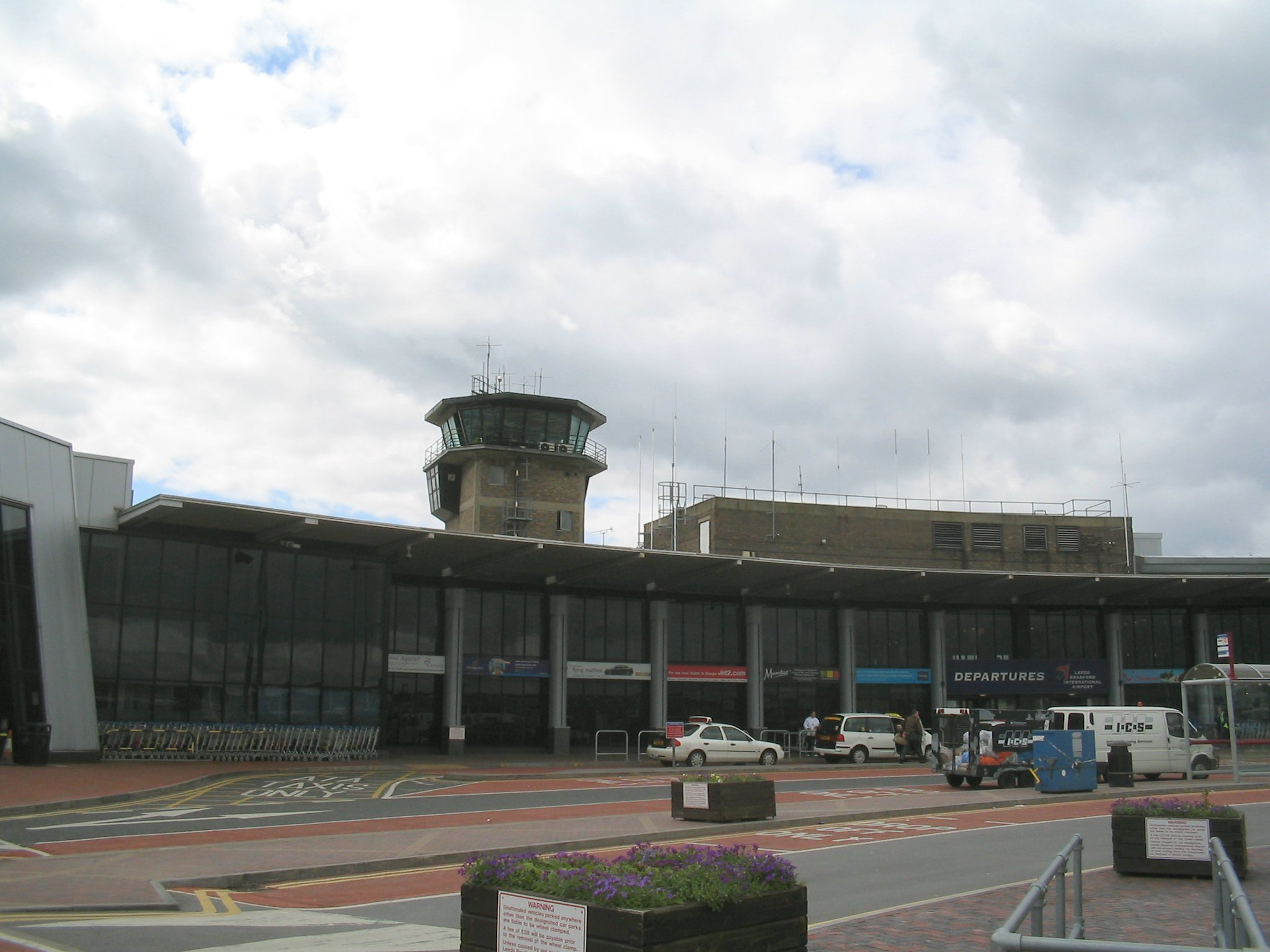 The terminal and control tower at Leeds Bradford International Airport.